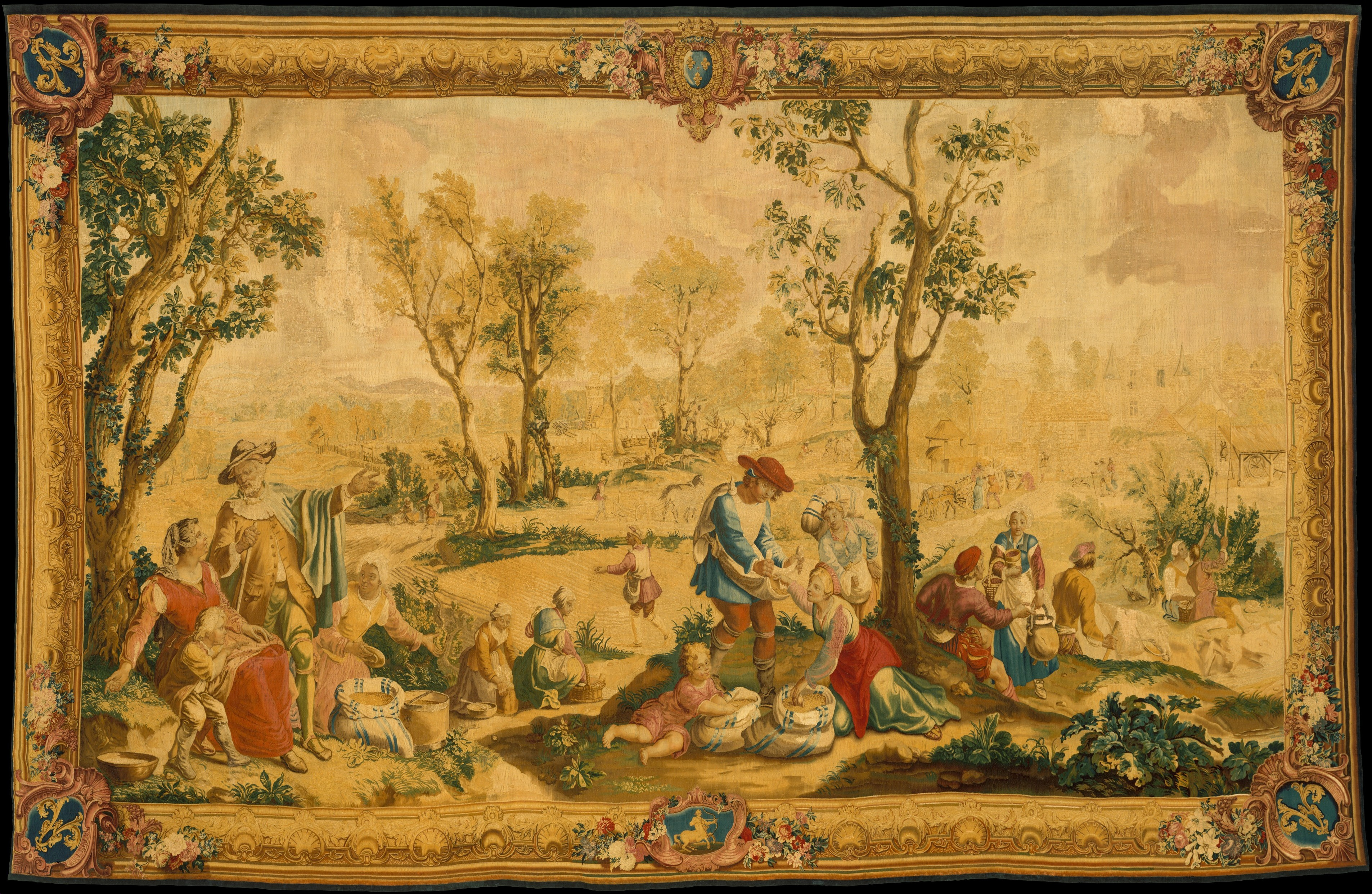 French, Paris; Tapestry; Textiles-Tapestries